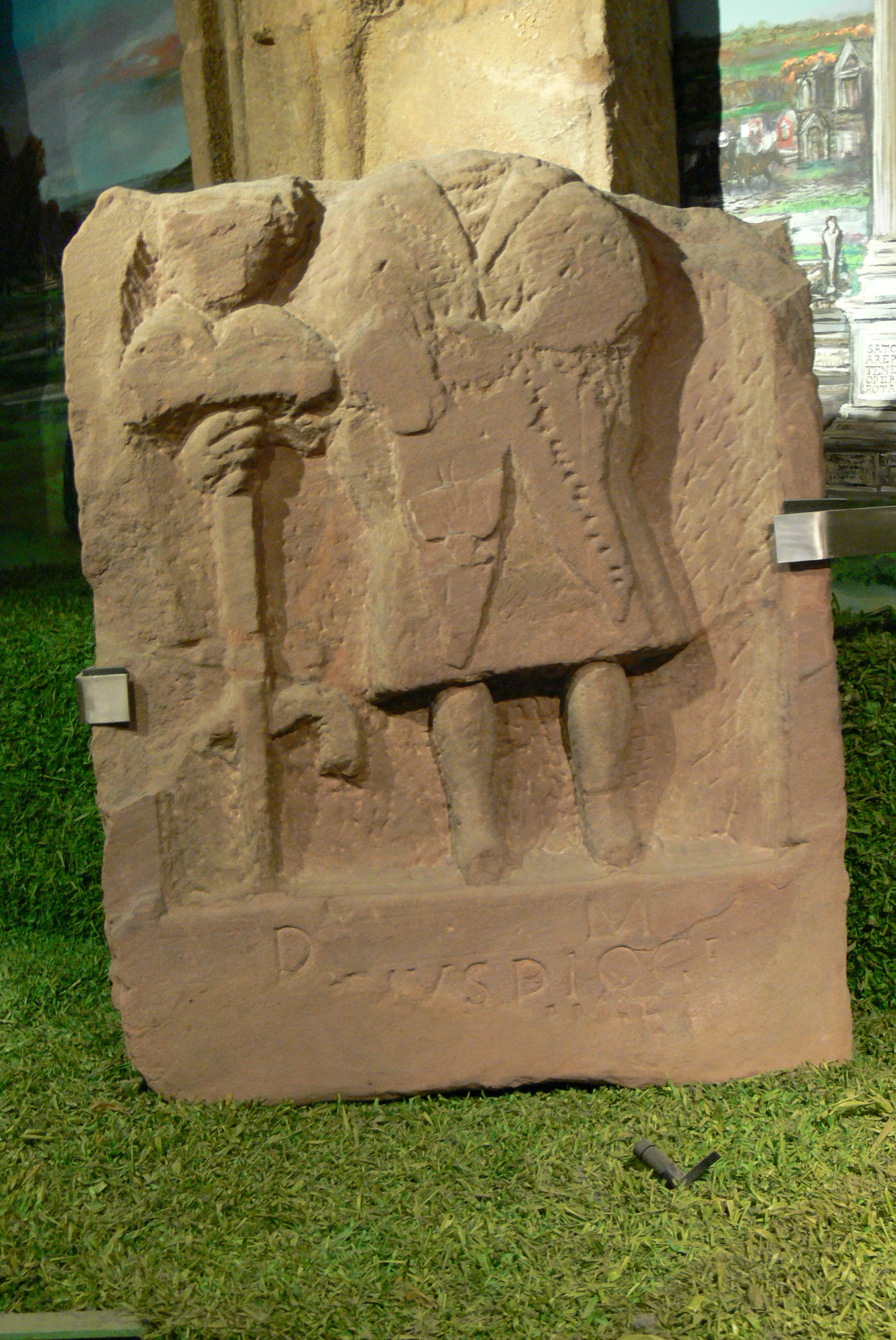 Chester ( England ). Grosvenor Museums: Tombstone of Aurelius Diogenes, imaginifer ( standard bearer ), with inscription D:M:AV(re)LIUS:DIOGENES:IMAGINIFER( To the spirits of the departed, Aurelius Diogenes, standard bearer ).